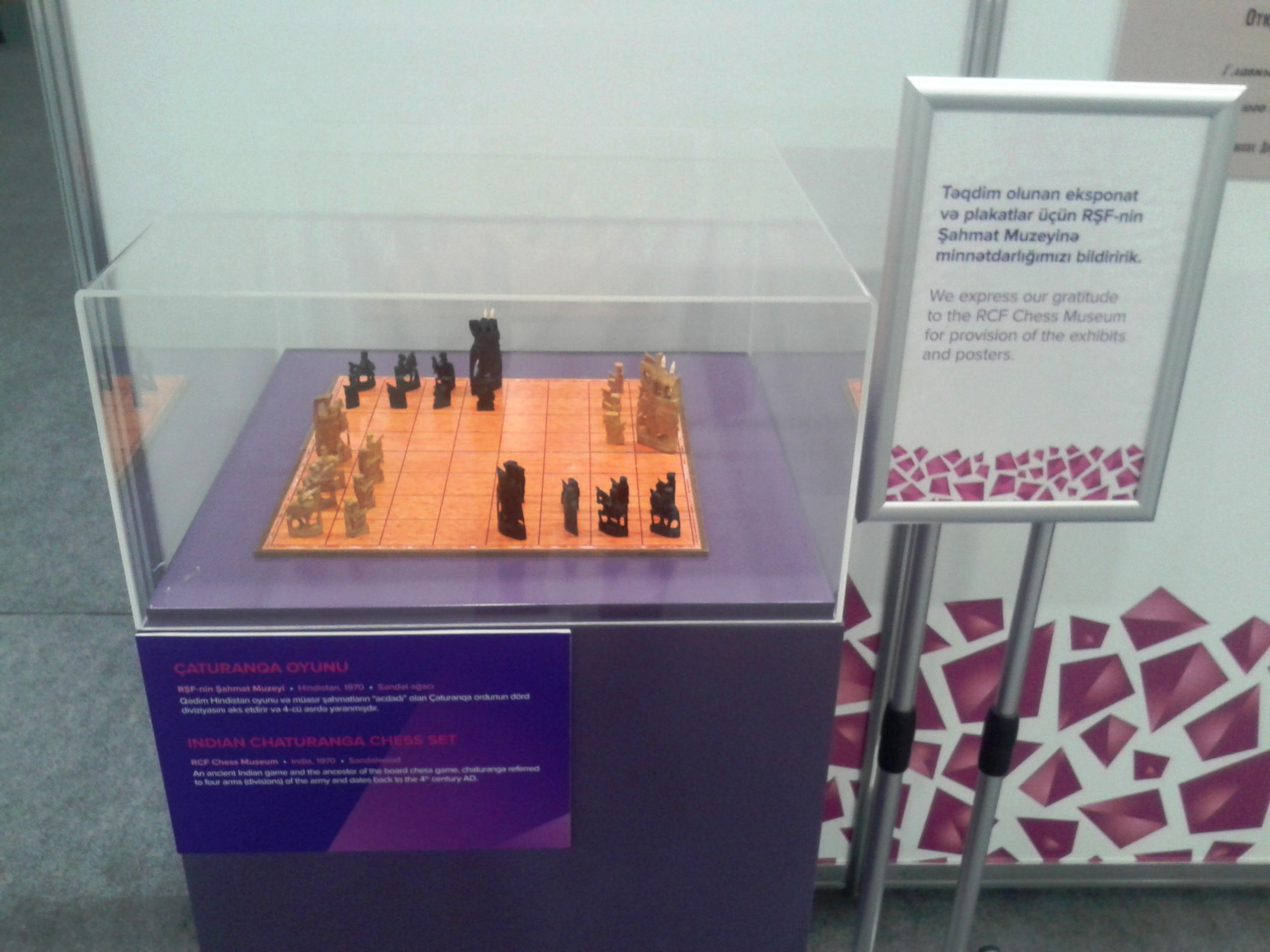 Indian Chaturanga Chess Set